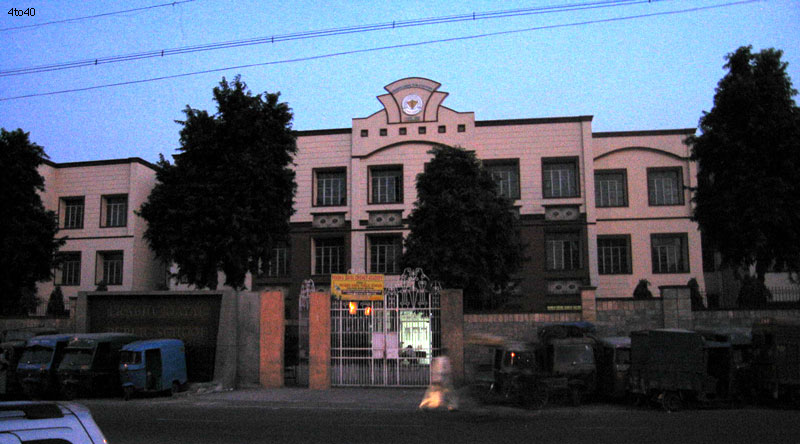 Main School Building